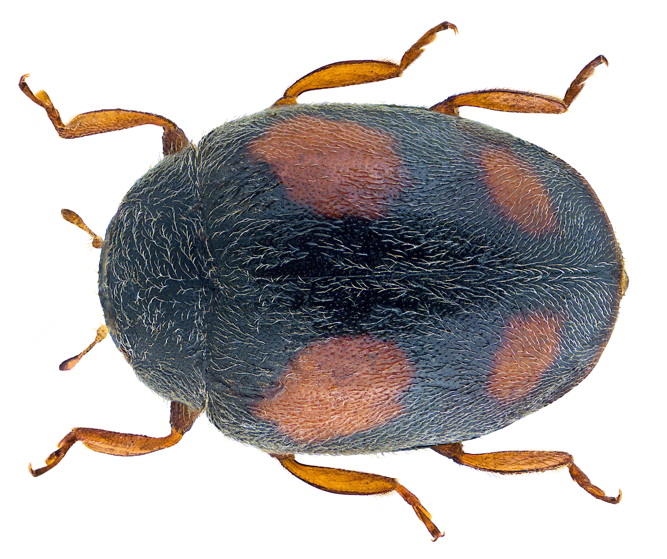 Family: Coccinellidae Size: 2.8 mm (2.0 to 3.0 mm) Distribution: Europe Ecology: the beetle lives on dry grass slopes in xerothermic habitats Location: Germany, Bavaria, Upper Franconia, Kulmbach, Gutsfeld leg.det. U.Schmidt, 7.VIII.1976 Photo: U.Schmidt, 2016